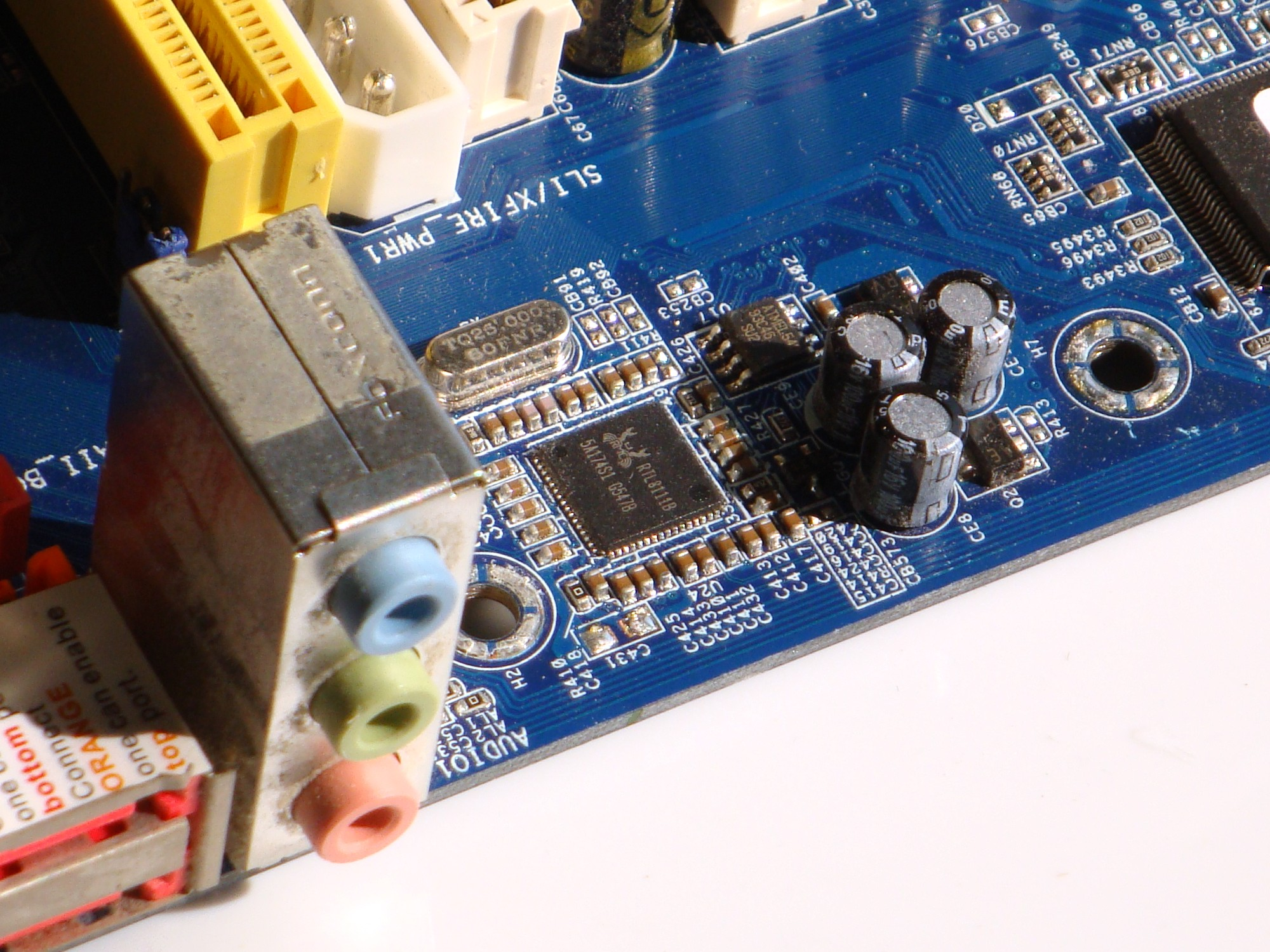 Realtek RTL8111B 1000BASE-T Ethernet controller (PCI-E)